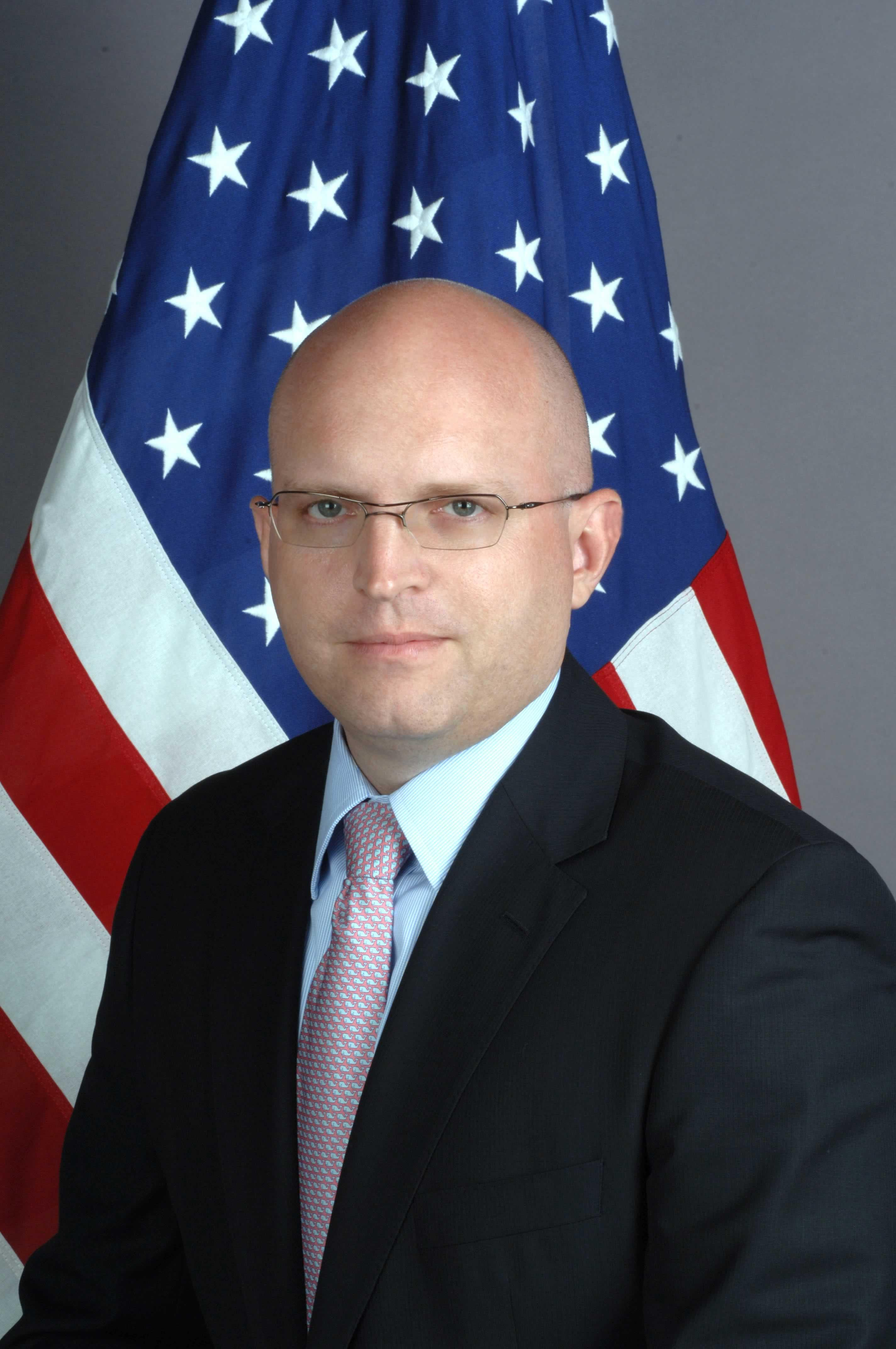 US Ambassador Philip T. Reeker in Macedonia